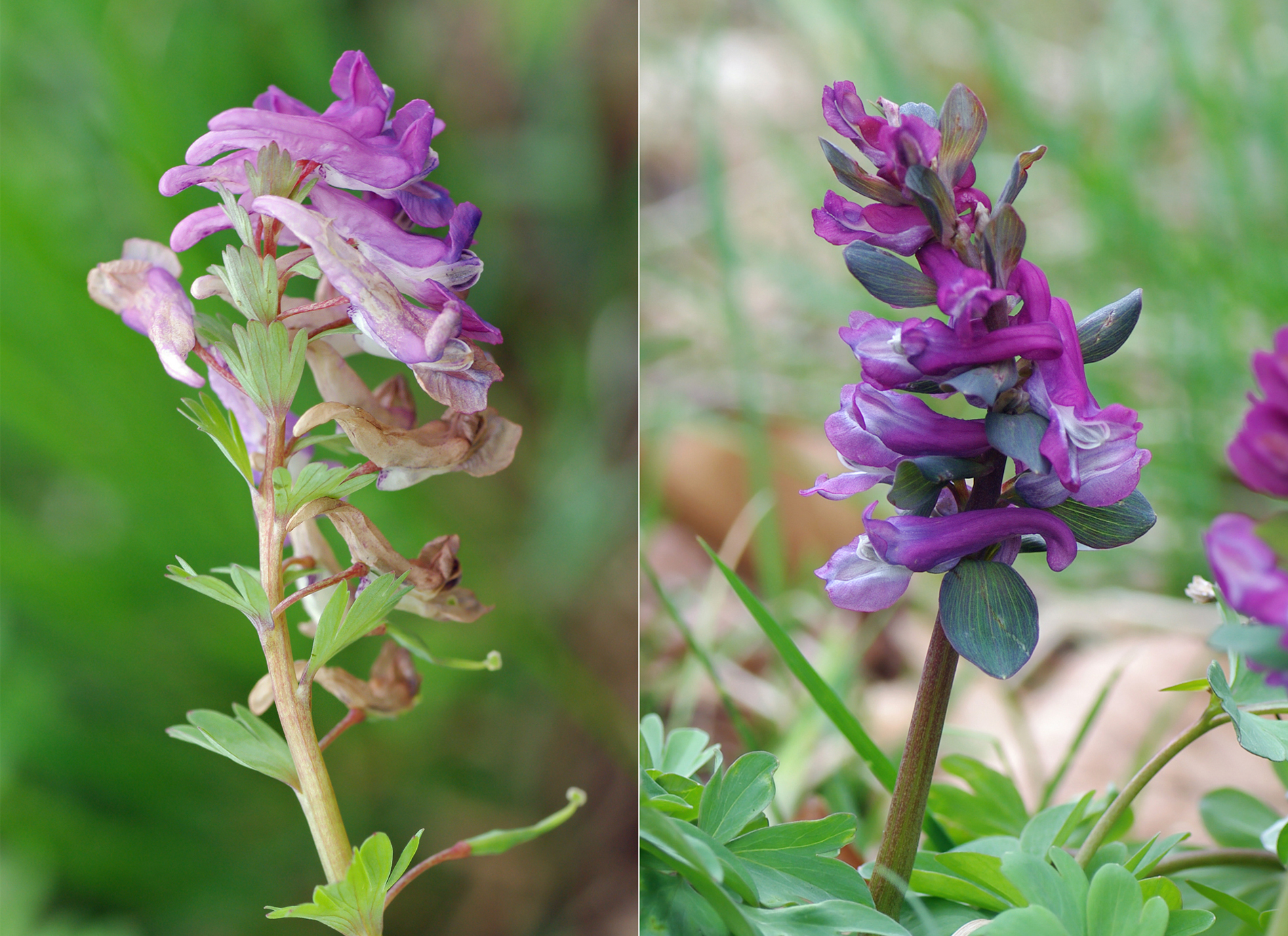 Comparison between Solid tubered Corydalis, Corydalis solida (left), and Hollow root, Corydalis cava (right). Especially the bracts are clearly different – finger-shaped in C. solida, simple shaped in C. cava. Both plants have been found close together in the open field outside of gardens (but are believed to be synanthrope at that locality). Height about 10–12 cm.